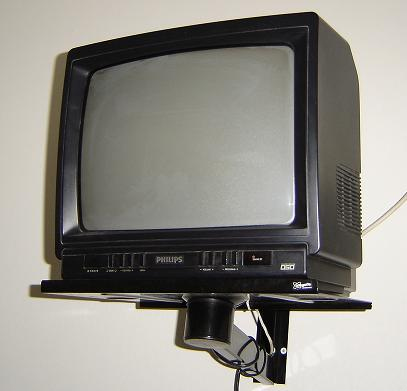 TV set.